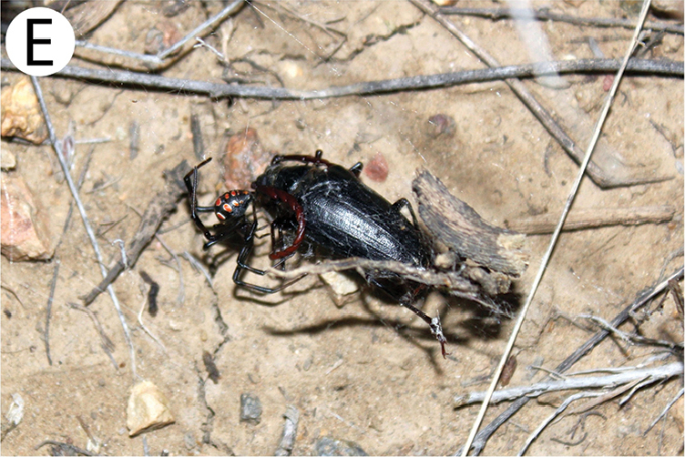 Figure 9; Male of Psilotarsus brachypterus brachypterus hunted by Latrodectus tredecimguttatus